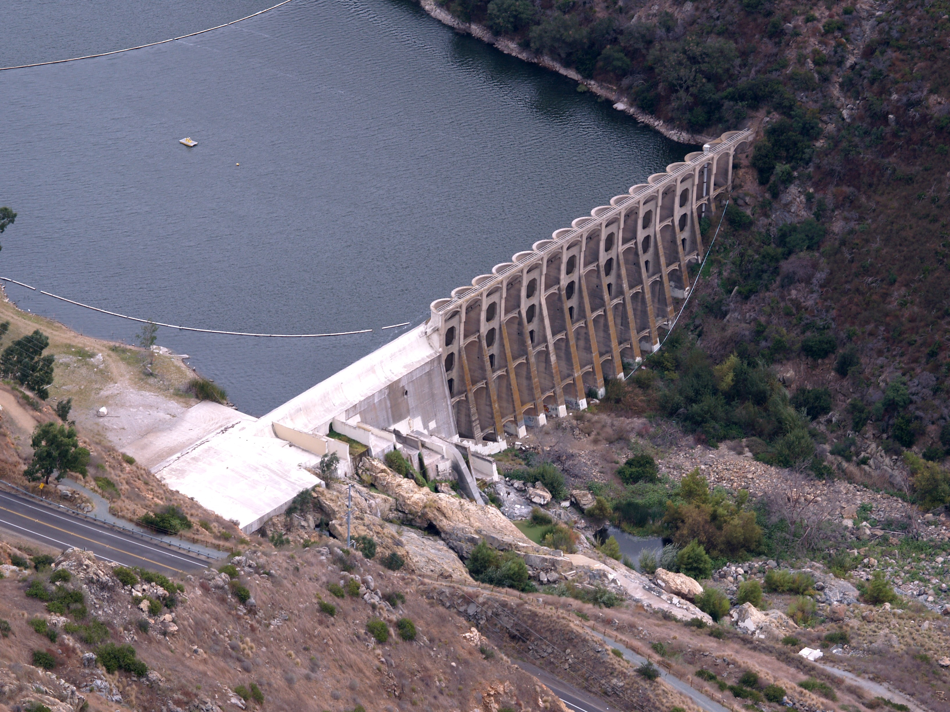 A view of Lake Hodges Dam taken from a helicopter at 1200 feet. Please acknowledge "Phil Konstantin" as the creator of this photograph.